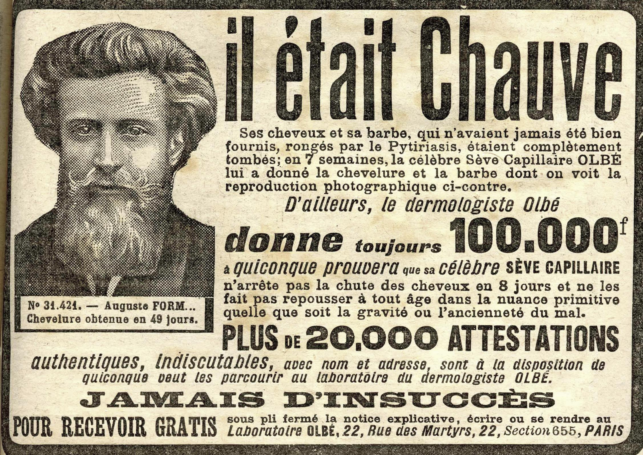 Advertisement for treatment against baldness in French periodical Le Pèlerin